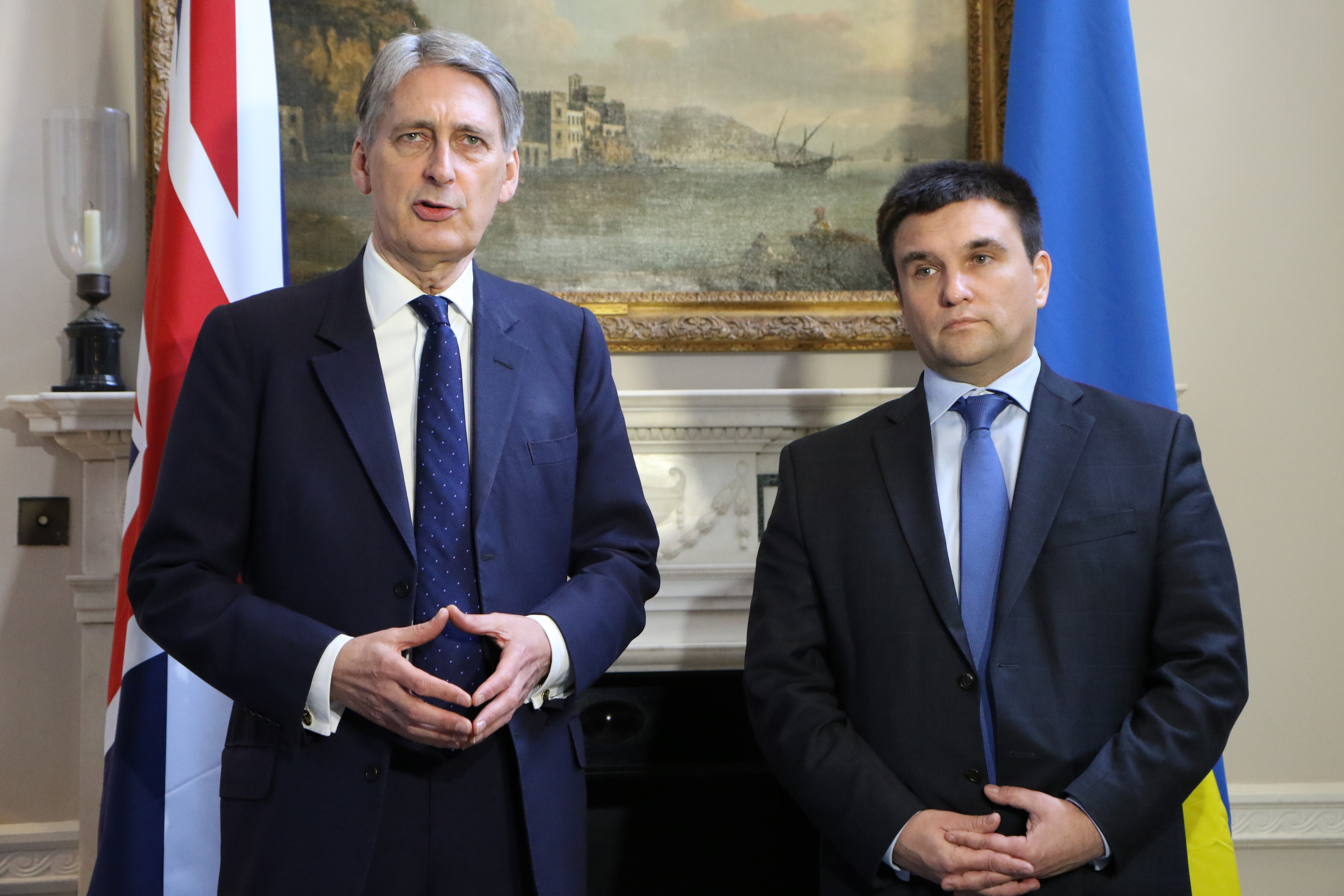 Foreign Secretary Philip Hammond meeting Pavlo Klimkin, Minister of Foreign Affairs of Ukraine in London, 11 February 2016.